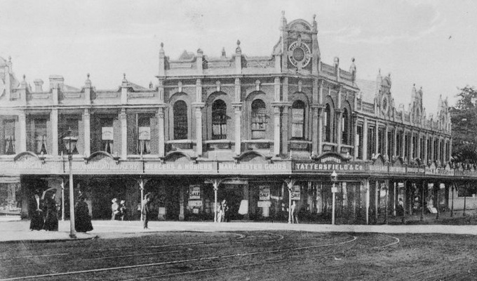 Corner Karangahape Road and Pitt Street, Auckland City, New Zealand. At that time, Karangahape Road was a famous shopping precinct rivaling Queen Street. Extended information on origin webpage reads: Corner Pitt Street and Karangahape Road, Auckland [ca 1909] / Reference number: PAColl-5908-006 / 1 b&w photo-mechanical print(s). Photomechanical print (postcard) 13.5 x 8.6 cm. Horizontal image. / Part of Parker, I W (Mr), fl 1976 :Postcards of New Zealand scenes (PAColl-5908) Photographic Archive / Scope and contents: View of the Pitt Street Buildings, including the business of Tattersfield & Co., located on the corner of Pitt Street and Karangahape Road in Auckland. Photograph taken circa 1909 by an unidentified photographer. / Notes: Source of descriptive information - Date stamp on postcard 1909 / Inscribed: Recto - top centre: Corner Pitt Street & Karangahape Road, Auckland.; Verso - centre right: Recipient's address: Mr Willie Simmons / c/- C Simmons Esq / Railway Dept / New Plymouth; Verso - centre left: Communications: Best wishes for you all / for a very happy Xmas / Kathleen G